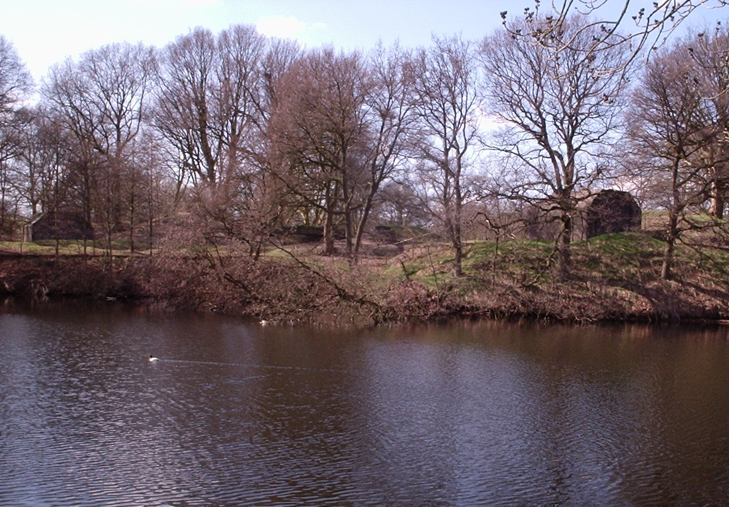 Concrete Shelters (about 1930) at Fort Ruigenhoek - Photo 17 April 2006